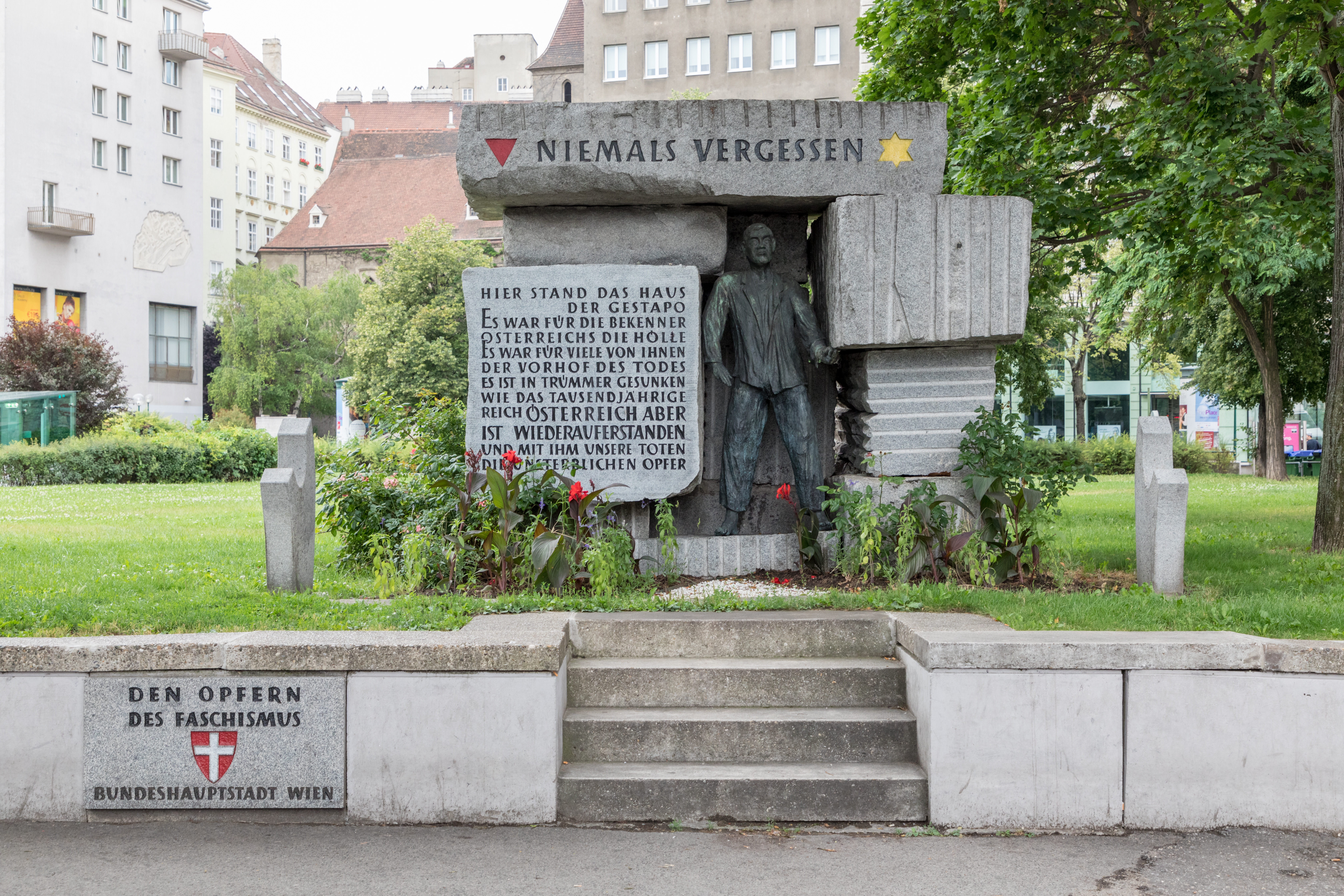 Memorial for the victims of the Nazi tyranny, Vienna, Austria Sculpture TitleMahnmal für die Opfer der NS-GewaltherrschaftArtistLeopold Grausam, jun.Date1 November 1985